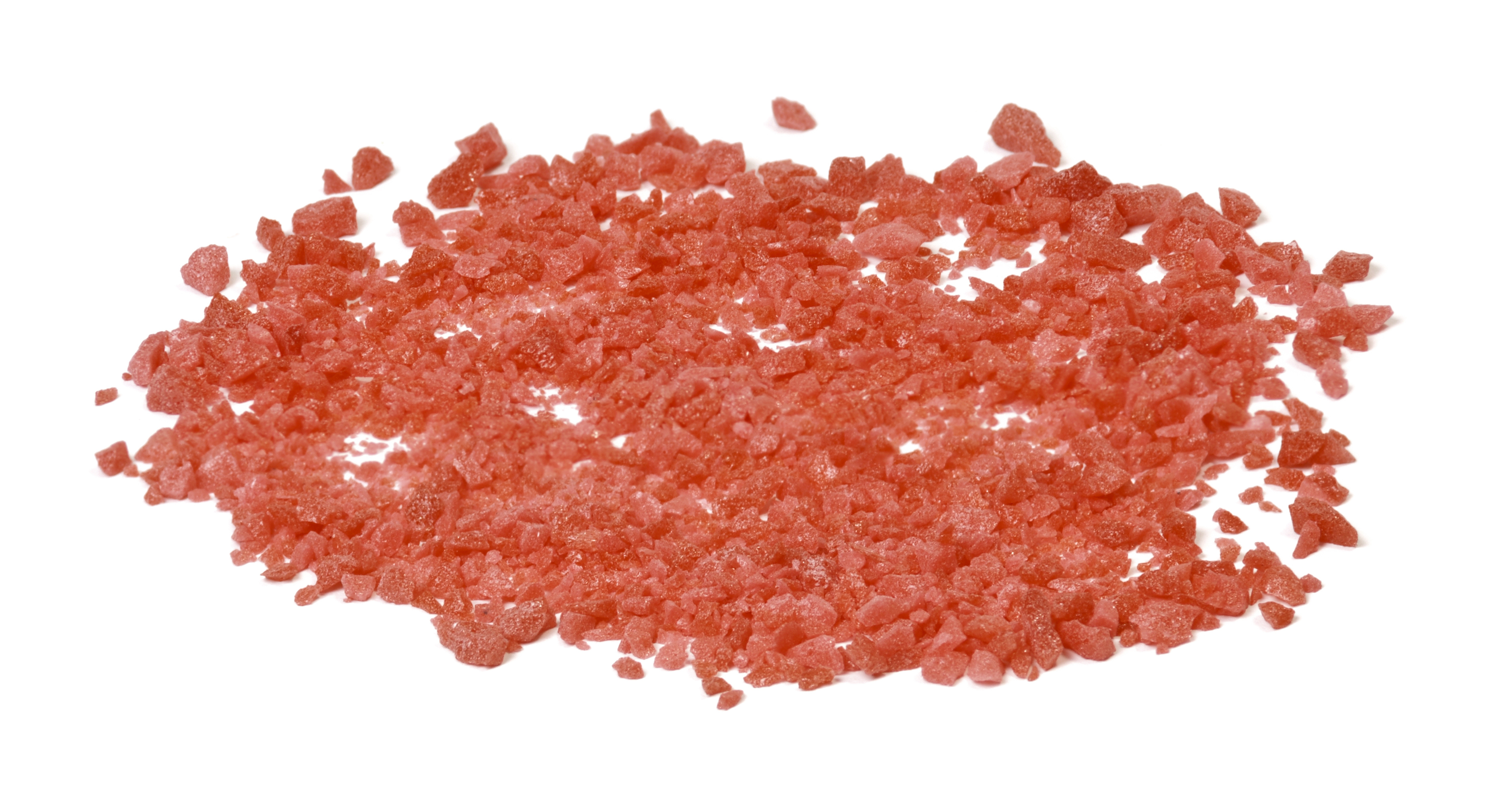 Strawberry-flavored Pop Rocks candy.